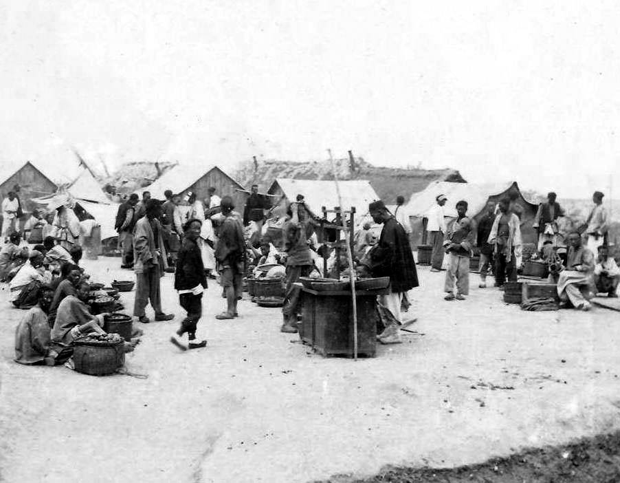 Street market in Shandong, China, later XIX century. Photo taken by the Fragata Sarmiento's crew during a trip to that country.